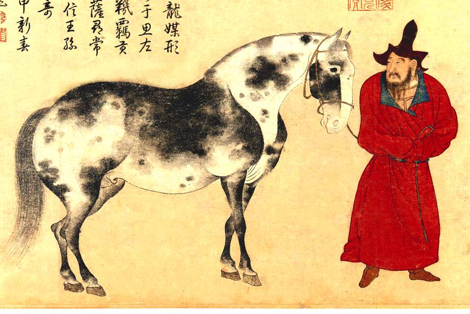 Horse and Groom, handscroll after Li Gonglin by Zhao Yong, China, Yuan dynasty, 1347, Freer Gallery